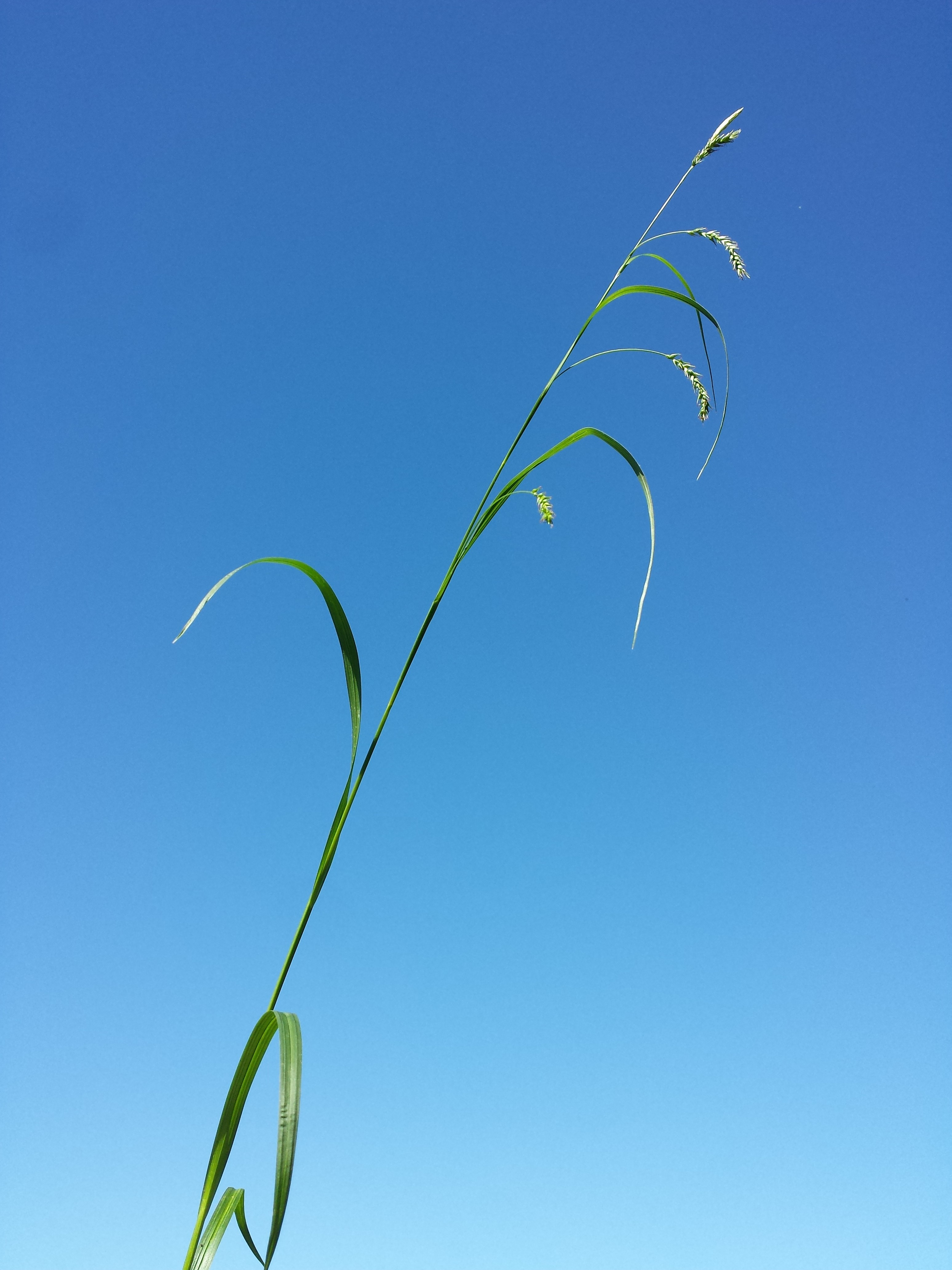 Habitus Taxonym: Carex sylvatica ss Fischer et al. EfÖLS 2008 ISBN 978-3-85474-187-9 Location: Michelberg, district Korneuburg, Lower Austria - ca. 330 m a.s.l. Habitat: Carpinion betuli